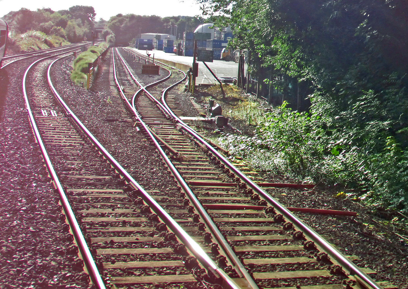 Northenden Junction and waste despatch sidings looking SE in 2016